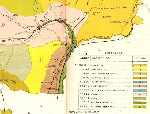 Surface Geological Map of Hertfordshire - by G. A Dean, 1864